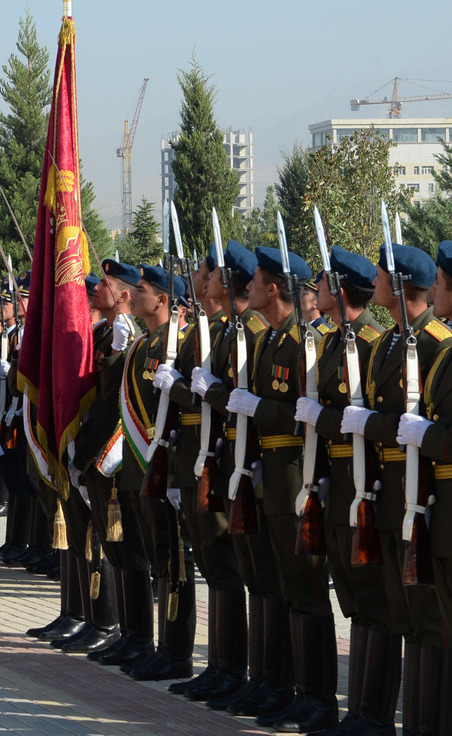 Official visit of Ilham Aliyev to Tajikistan